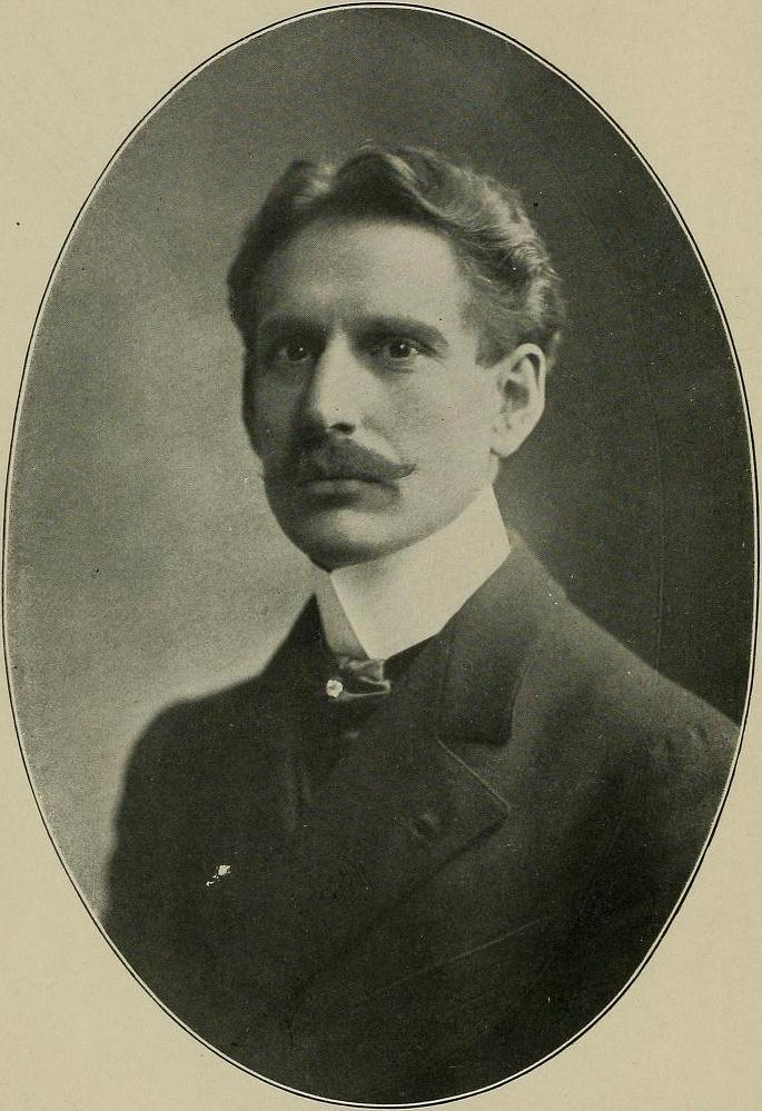 A photo of L. W. de Laurence taken from a page of one of his books: The Mystic Test Book of "The Hindu Occult Chambers". Out of copyright.